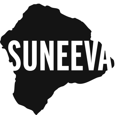 Suneeva